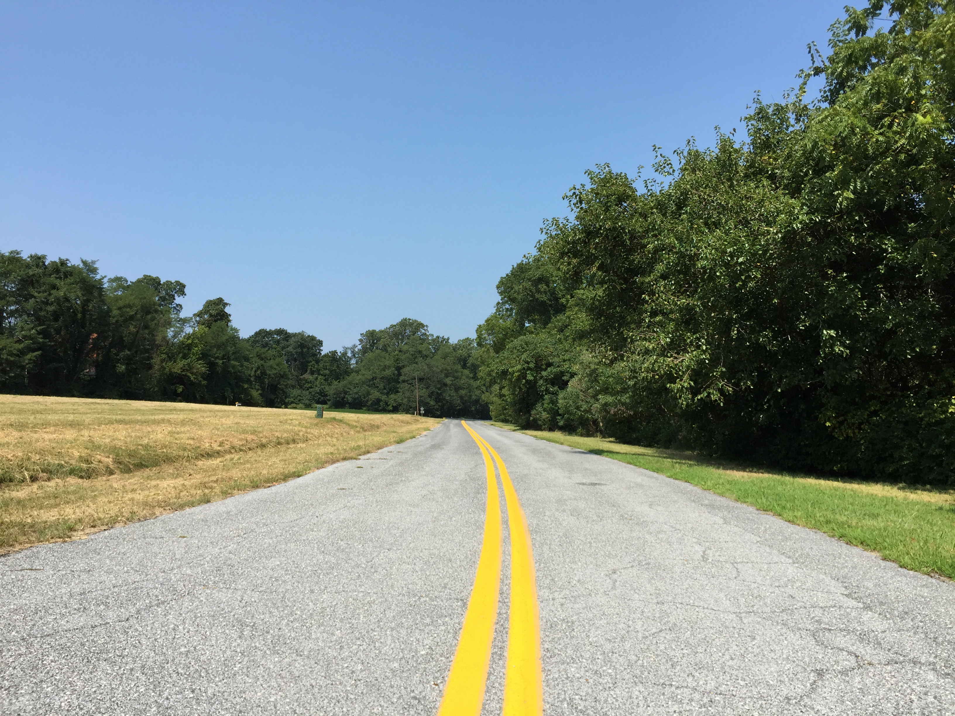 View north along Maryland State Route 617 (Old Harmony Road) at Beauchamp Branch Road in Bureau, Caroline County, Maryland